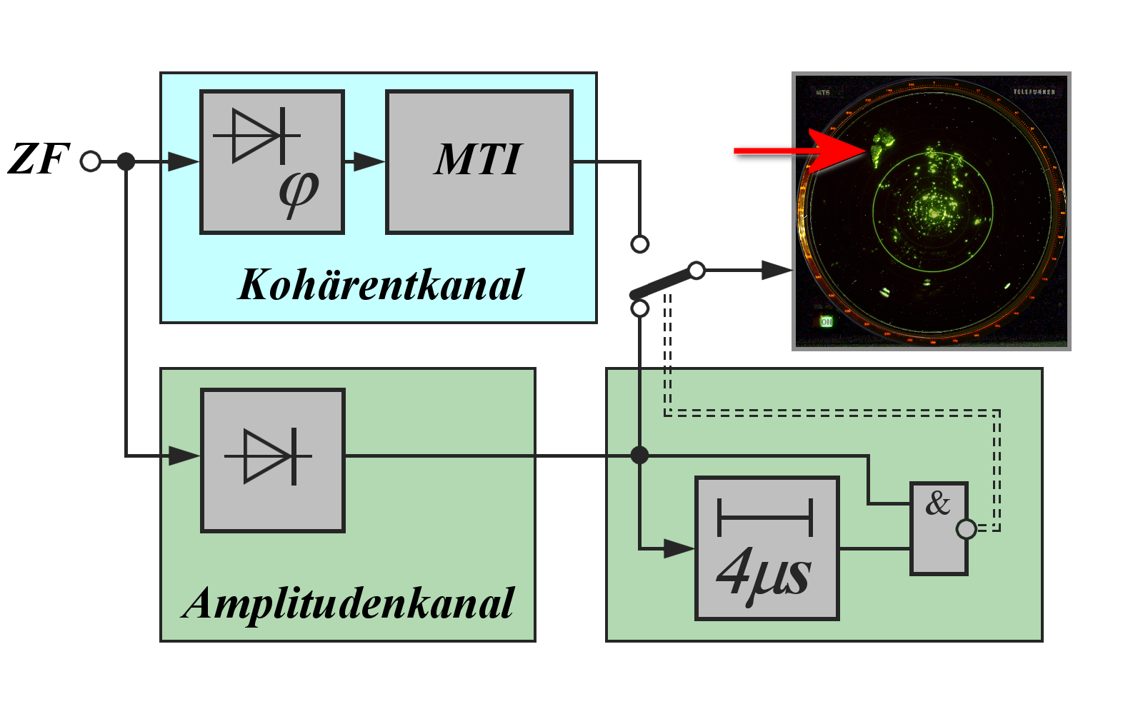 Circuit example for the function in radar signal processing Short-Time-Constant (STC) or Rainreject. The red arrow points to the cloud area: its leading edge is bright, the rest of the cloud is suppressed.